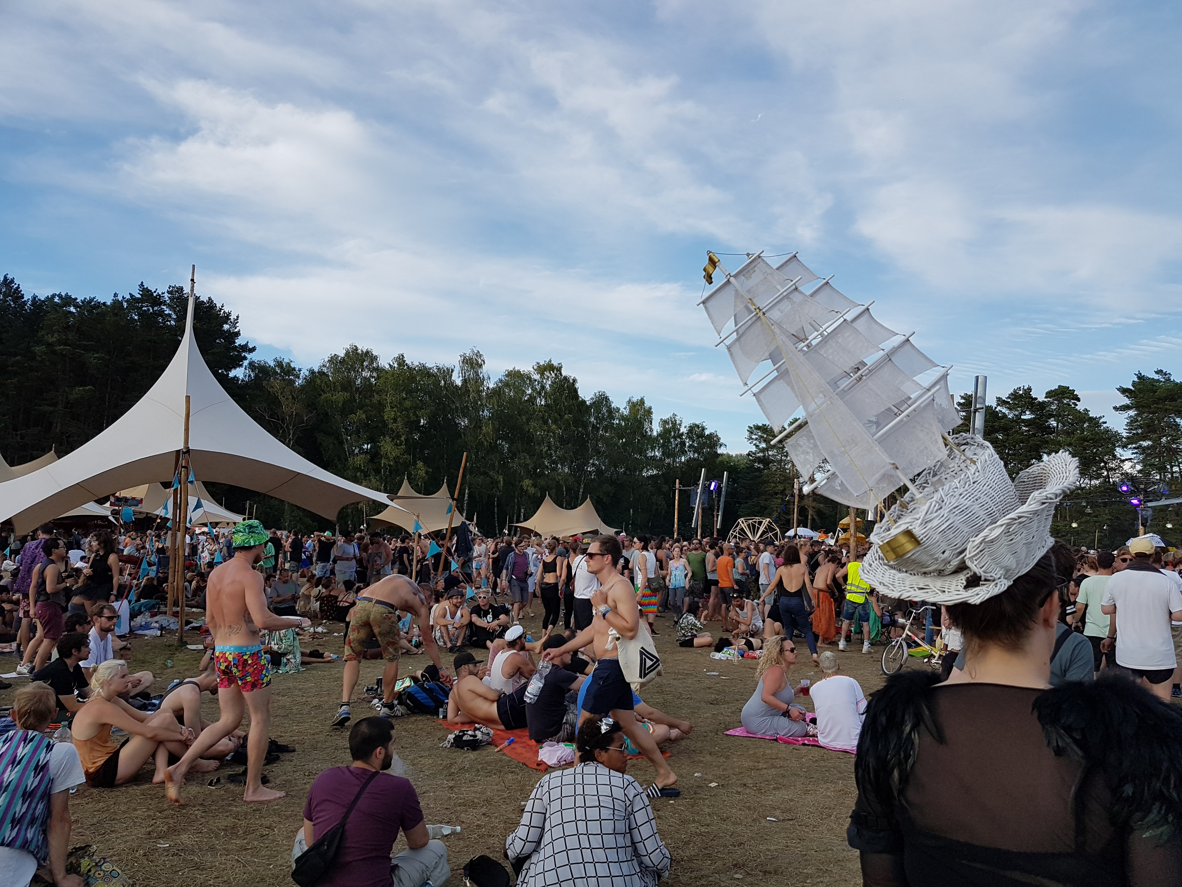 Nation of Gondwana